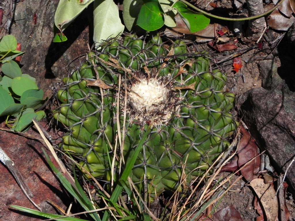 Plant at type locality, Goias, Brasil